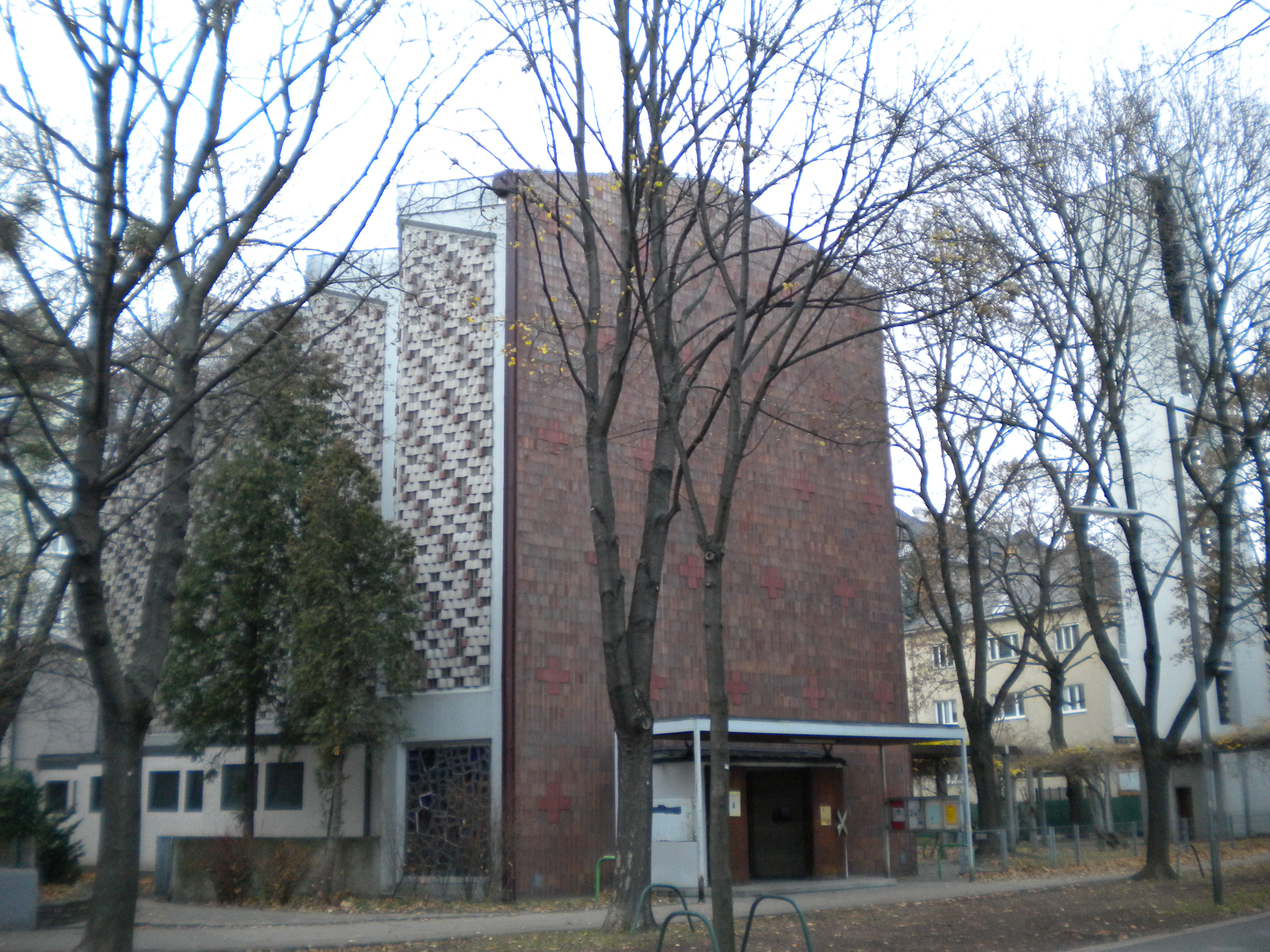 Church "am Schüttel", Leopoldstadt, Vienna, Austria